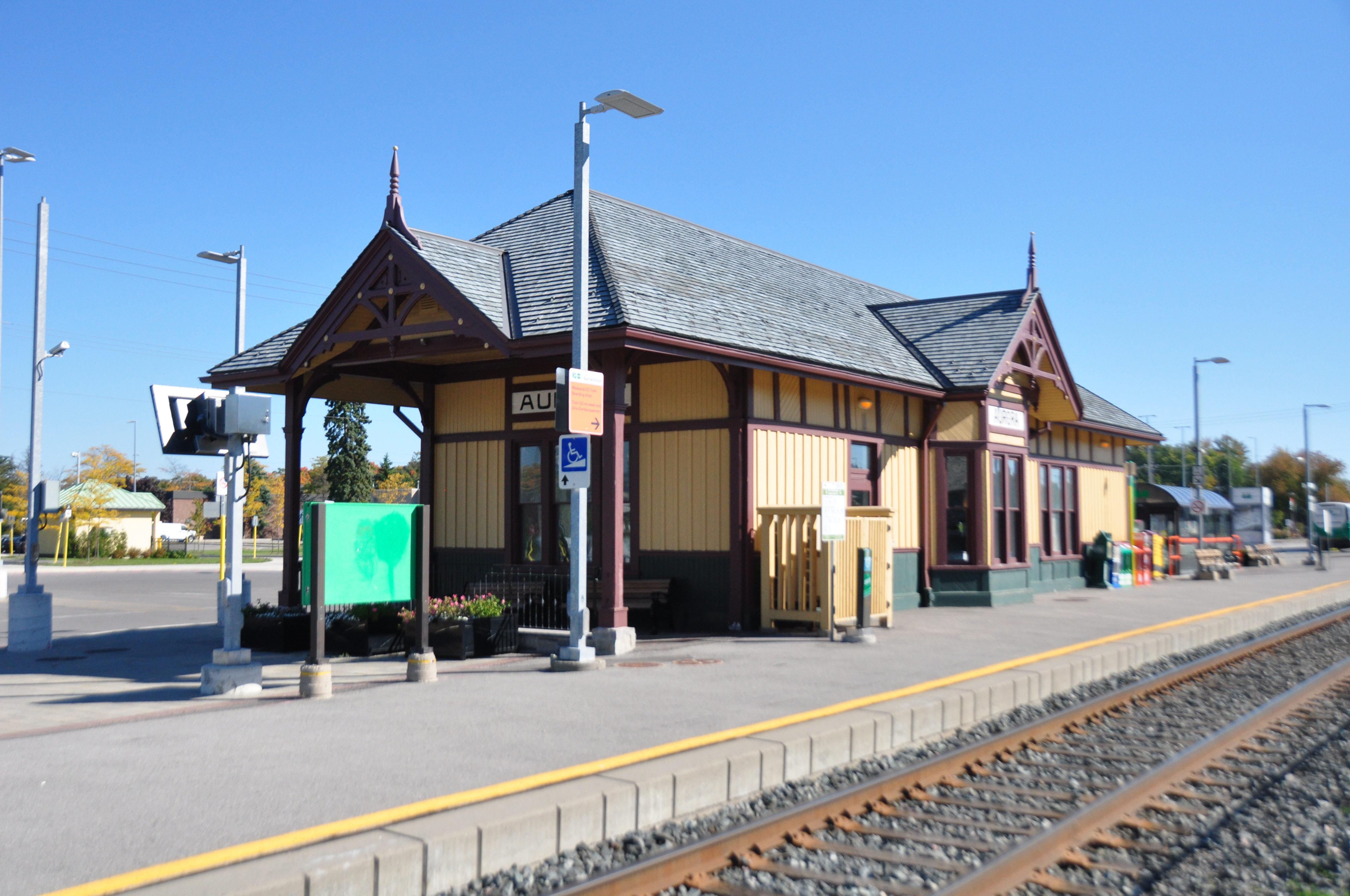 Grand Trunk Railway Station historic heritage building, 135 Wellington St., Aurora, Ontario, now Go Train Station